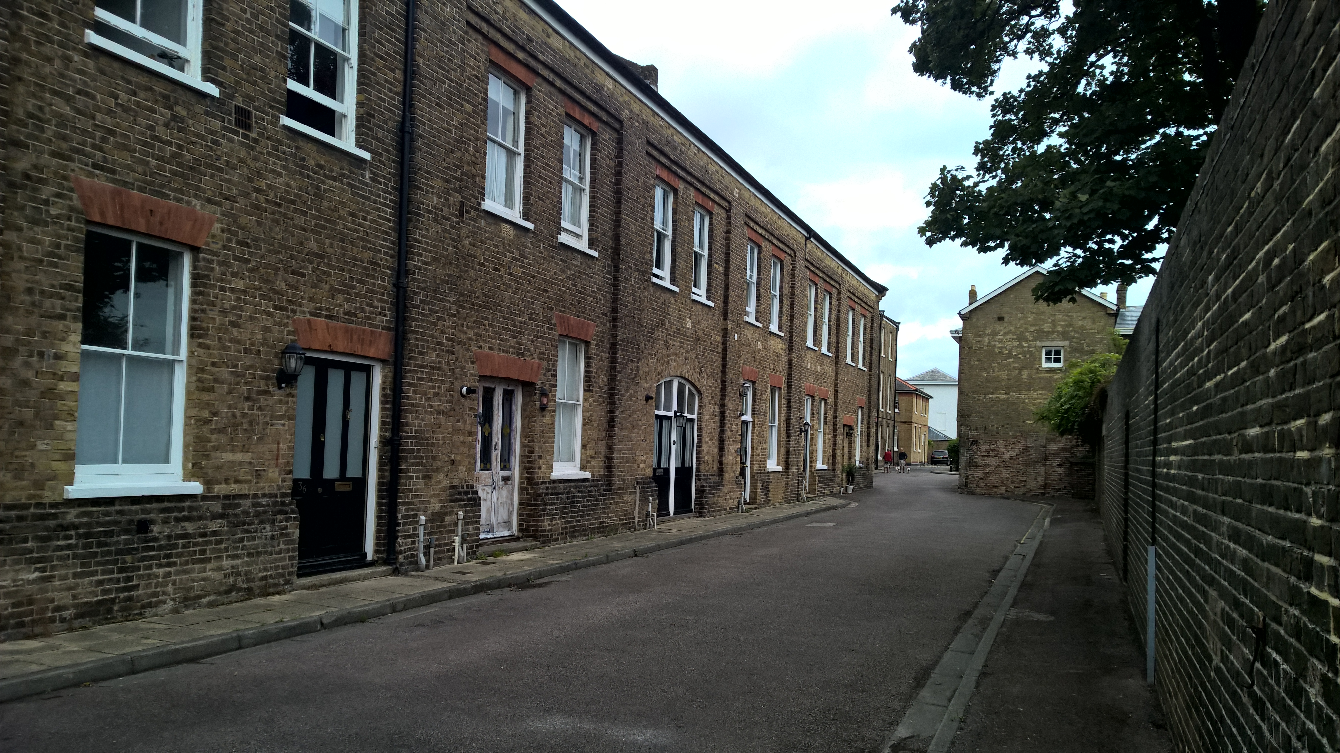 Built as part of the late-Victorian expansion of the Royal Naval Hospital, Deal, to serve as the Royal Marine Depot.